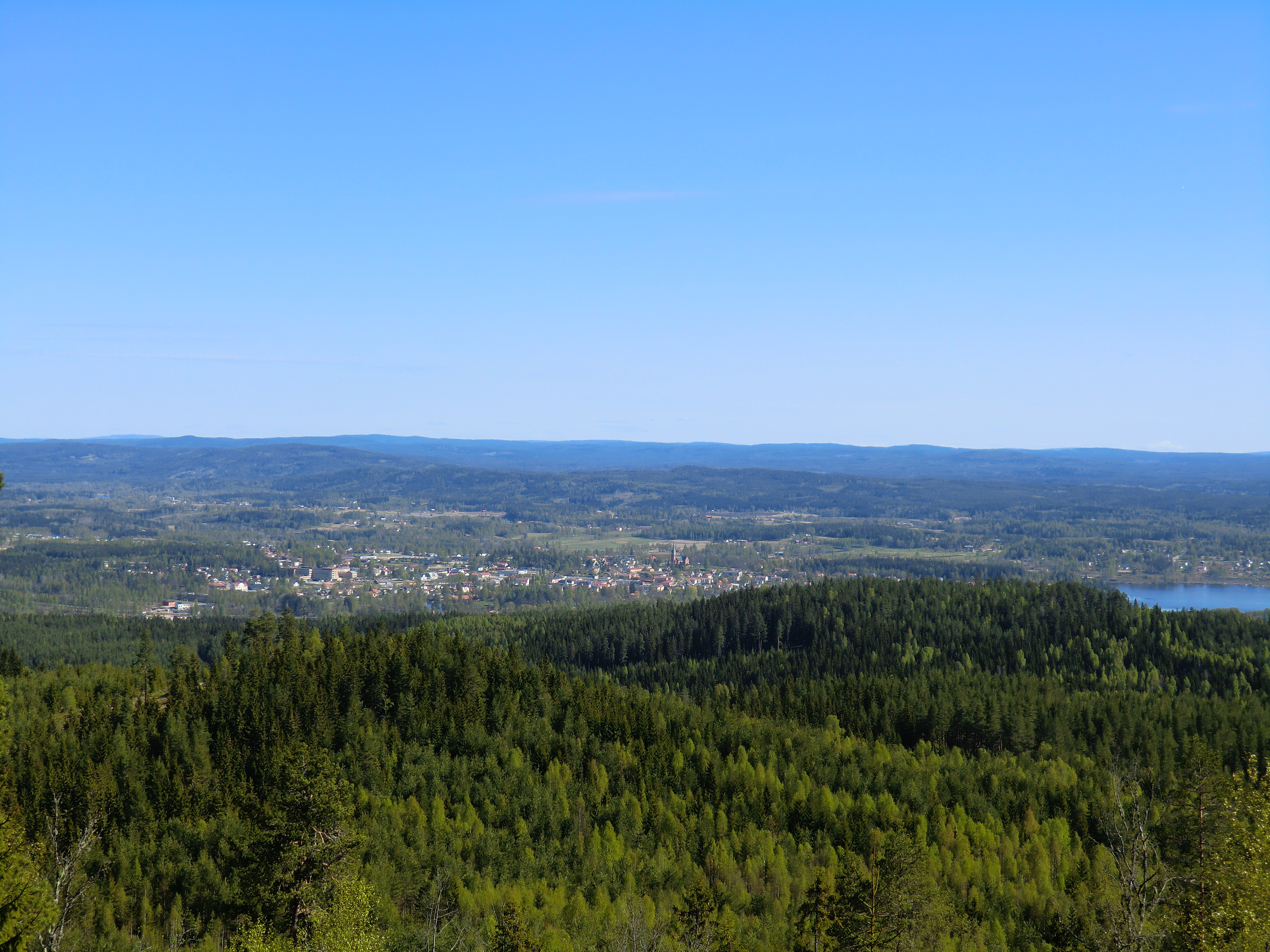 View over the village Torsby in Sweden from the hill Gräsberget.